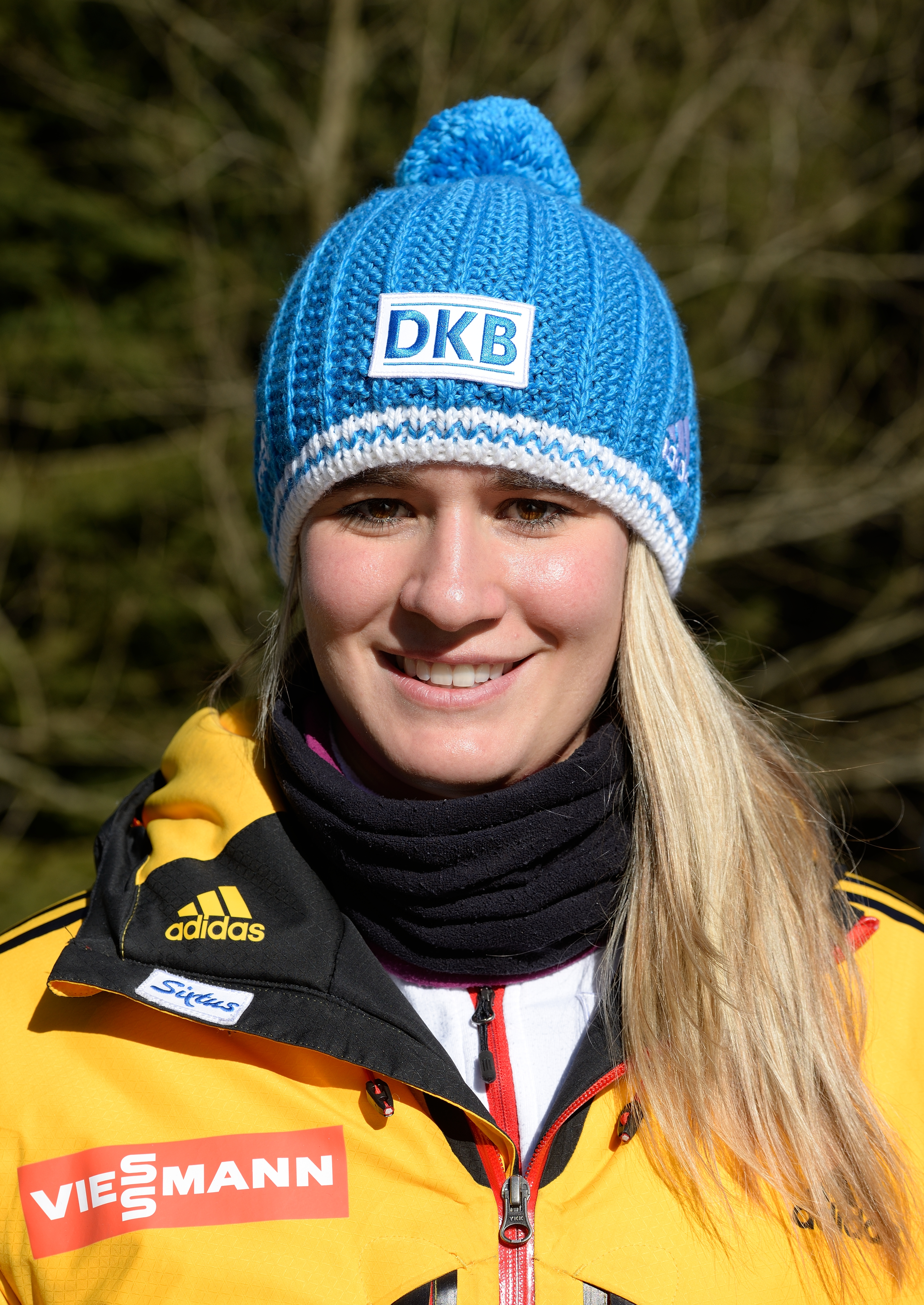 Luge world cup race season 2014/15 in Altenberg/Germany, 19th to 22nd Februar 2015. Day 1: training - press conference german team.